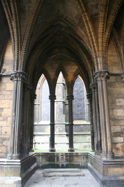 Galilee Porch View from inside the Galilee Porch of St.Mary's Cathedral, slender Early English lancet windows of c1250 look out towards the nave of St.Mary's Cathedral